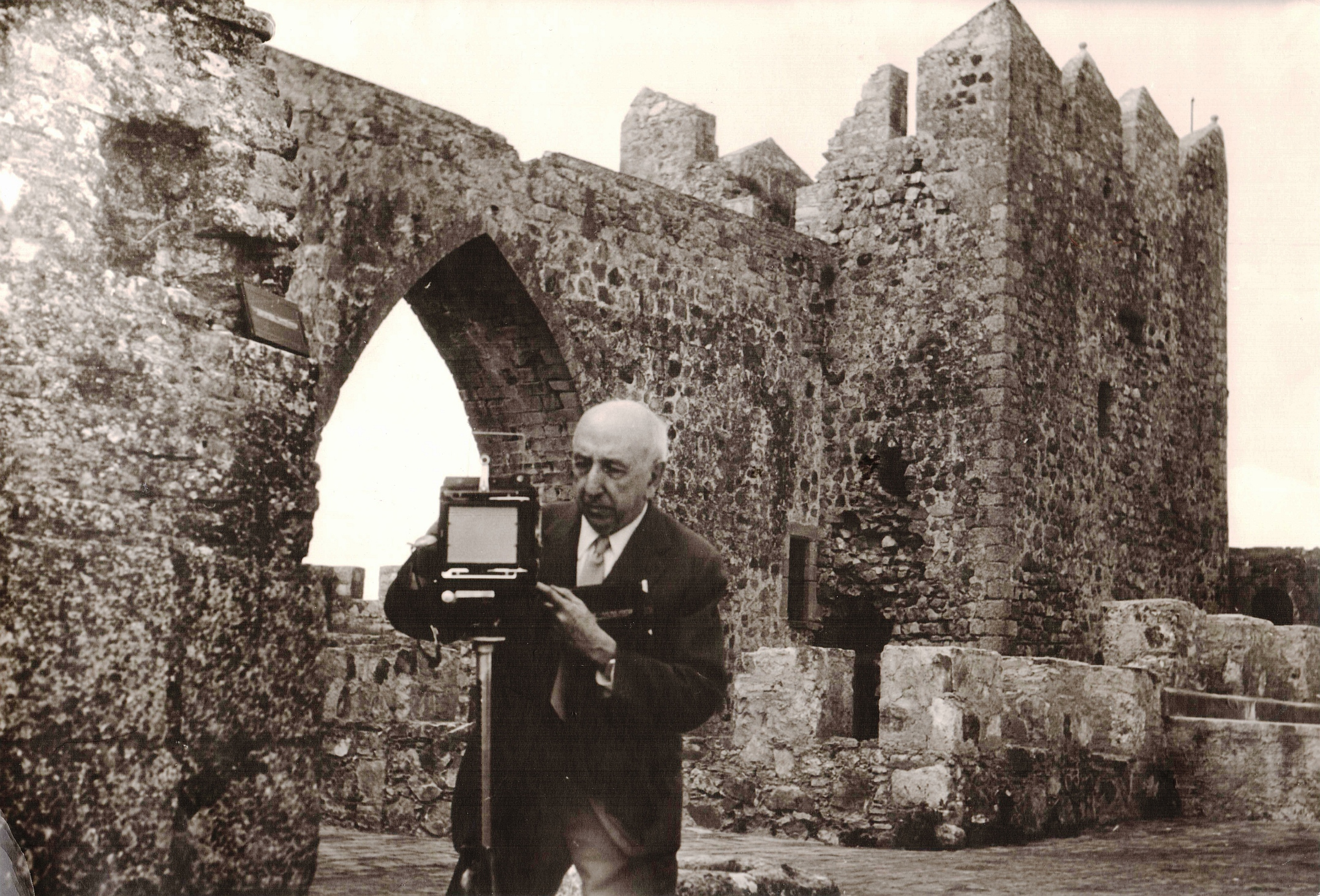 Spanish engineer, entrepreneur and photographer José Ortiz Echagüe in the 1960ies adjusting his camera in front of some ruins in Avila, Spain